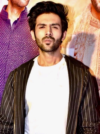 Kartik Aaryan at the success bash of the film Sonu Ke Titu Ki Sweety